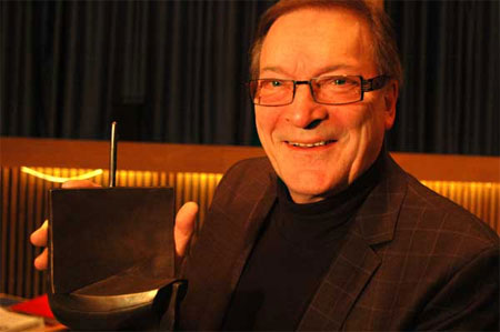 Conductor and musician Bjarne Fiskum receiving the Nord-Trøndelag fylkes kulturpris 2009